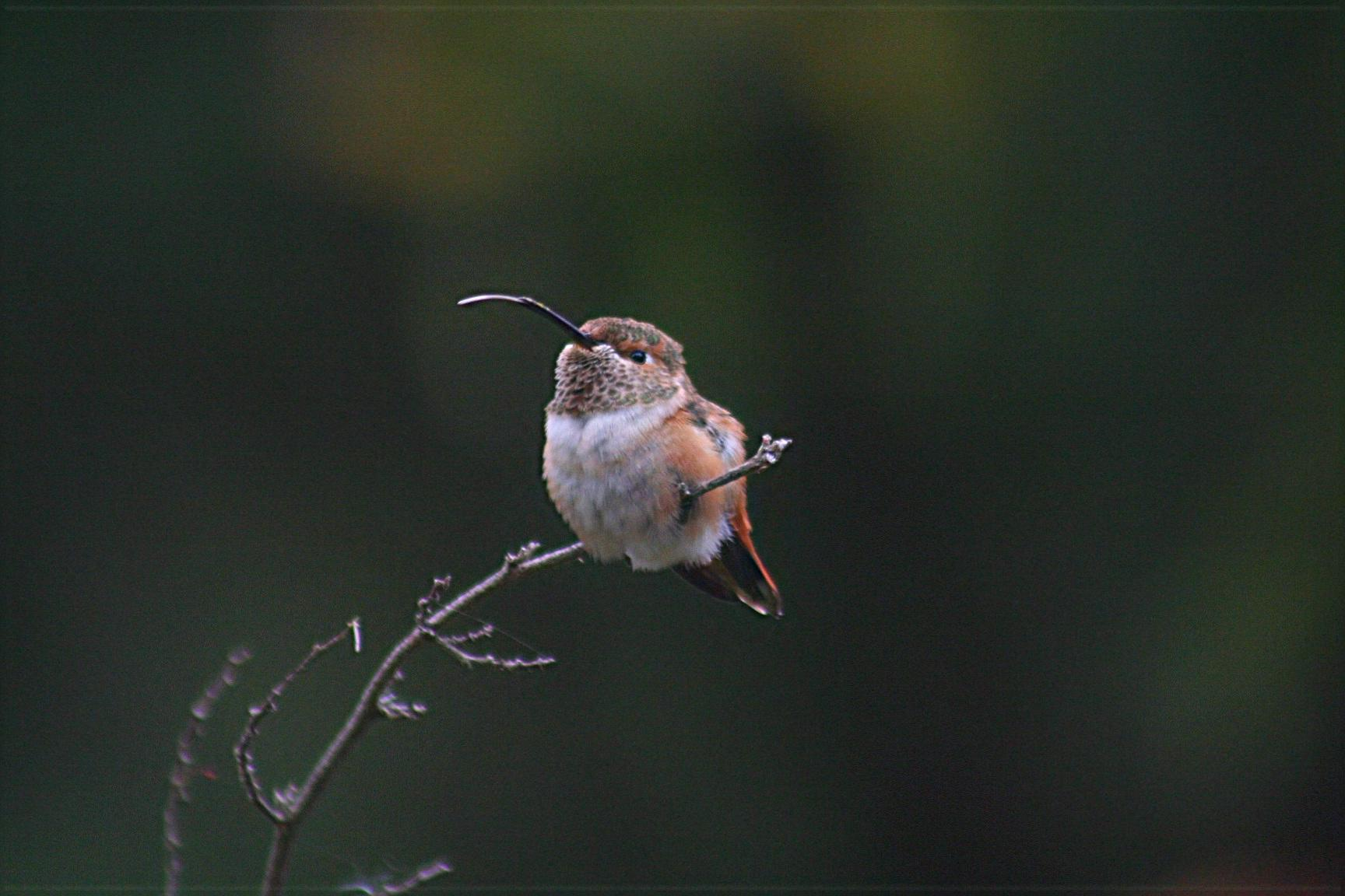 It is a rare (hard to catch) shot of a Rufous Hummingbird sticking out his tongue.The picture is a digital picture of my old film picture.The image was taken in San Francisco